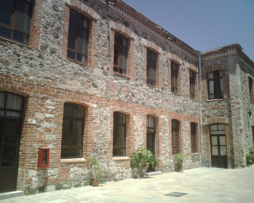 Instalaciones